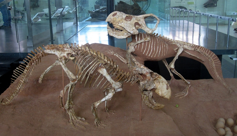 Protoceratops andrewsi AMNH, NYC, New York (May 8, 2009)